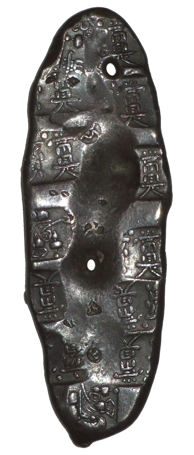 Keicho-chogin(silver)